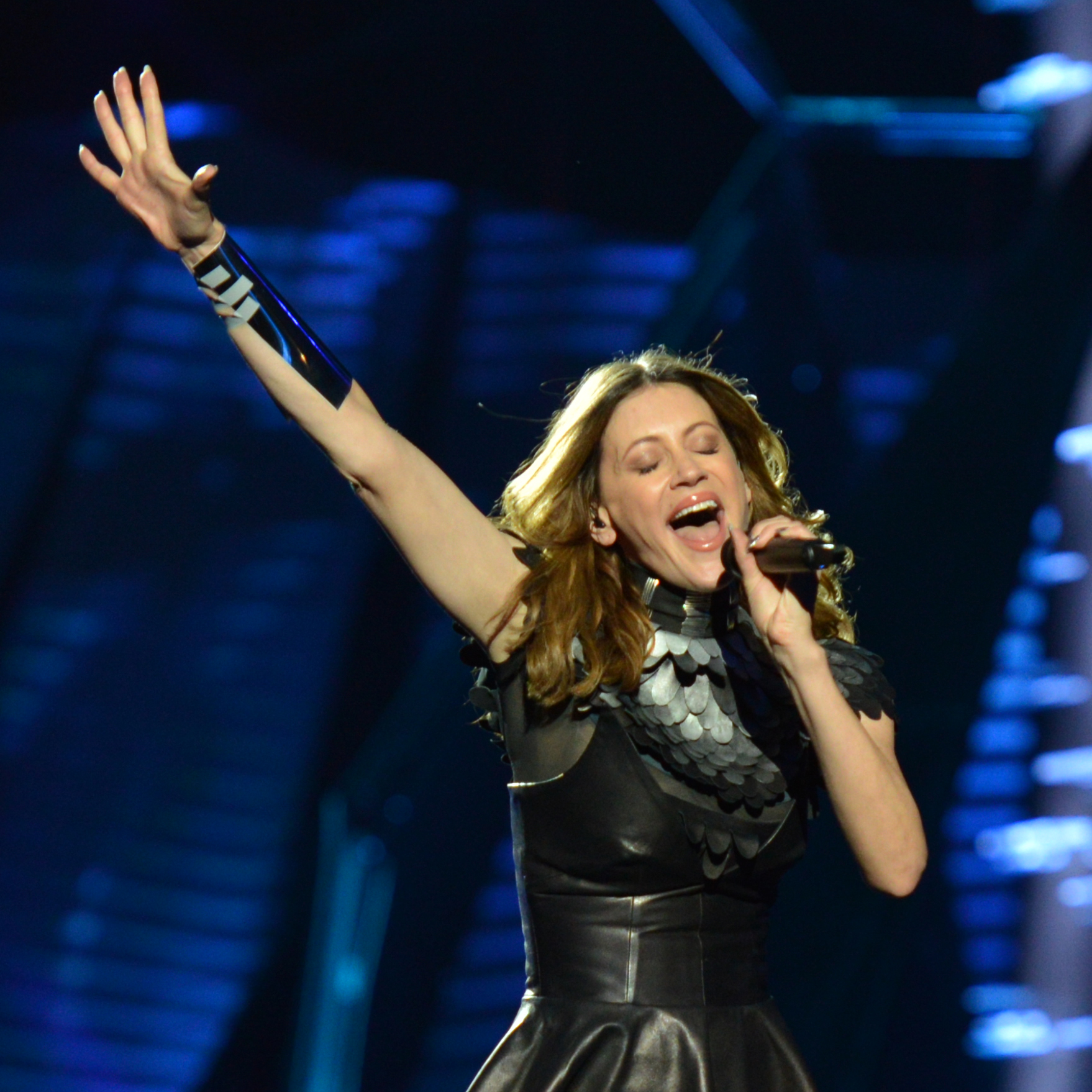 Hannah Mancini representing Slovenia with the song "Straight Into Love" during the first dress rehearsal of the first semi final of the Eurovision Song Contest 2013 Malmö. (Help translate this text)